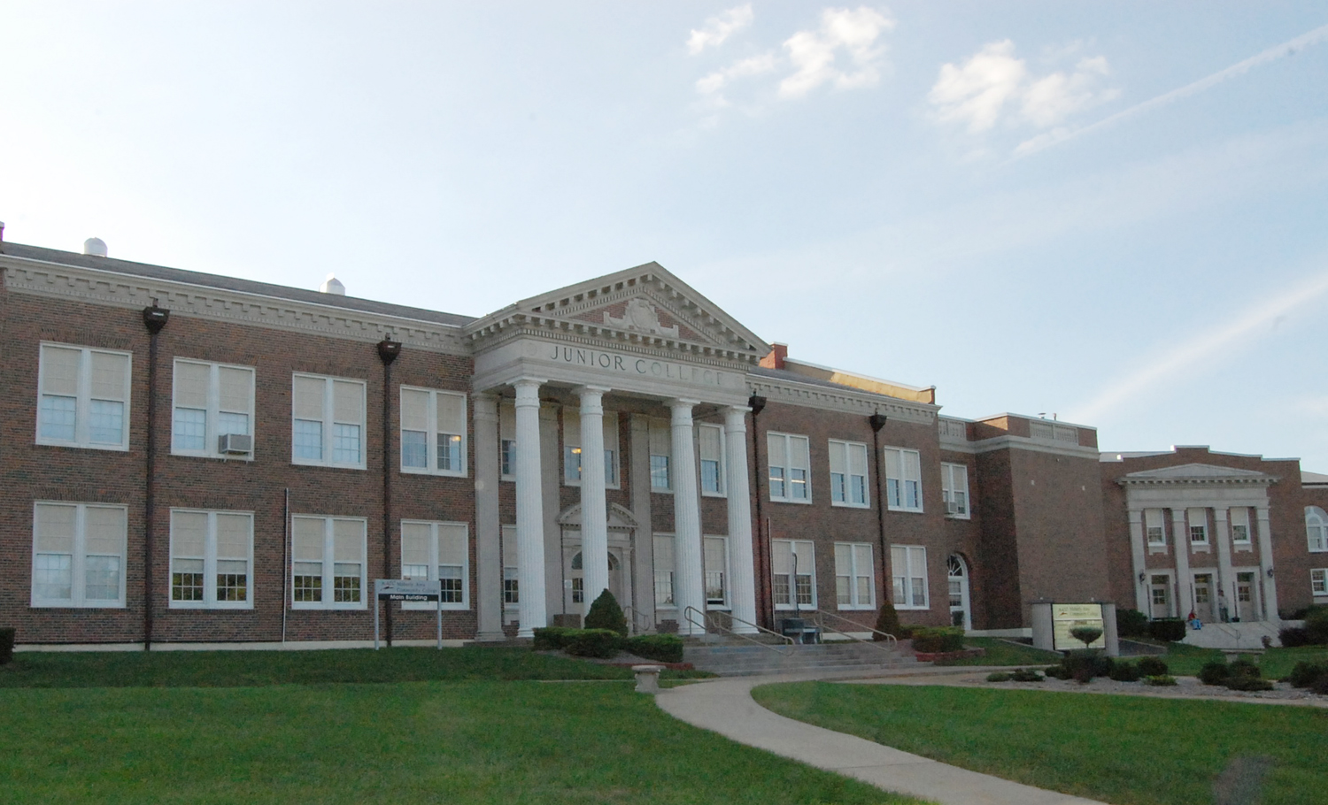 Original 1931 building of Moberly Area Community College (then known as Moberly Junior College). Seen here in 2009. Photo courtesy of KOMU-TV / Emily Stewart via Flickr.